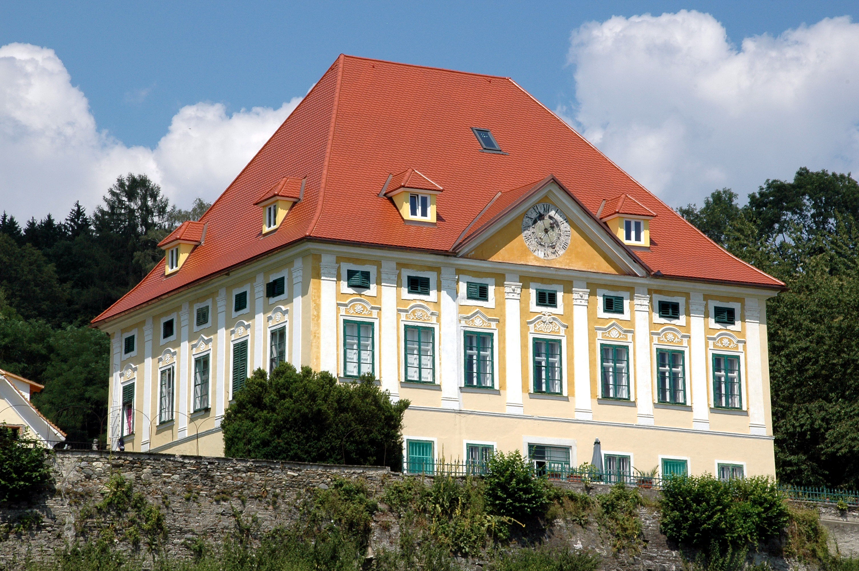 Castle Ehrenbichl, 14th district “Wölfnitz”, Carinthian capital Klagenfurt on the Lake Woerth, Carinthia, Austria, EU